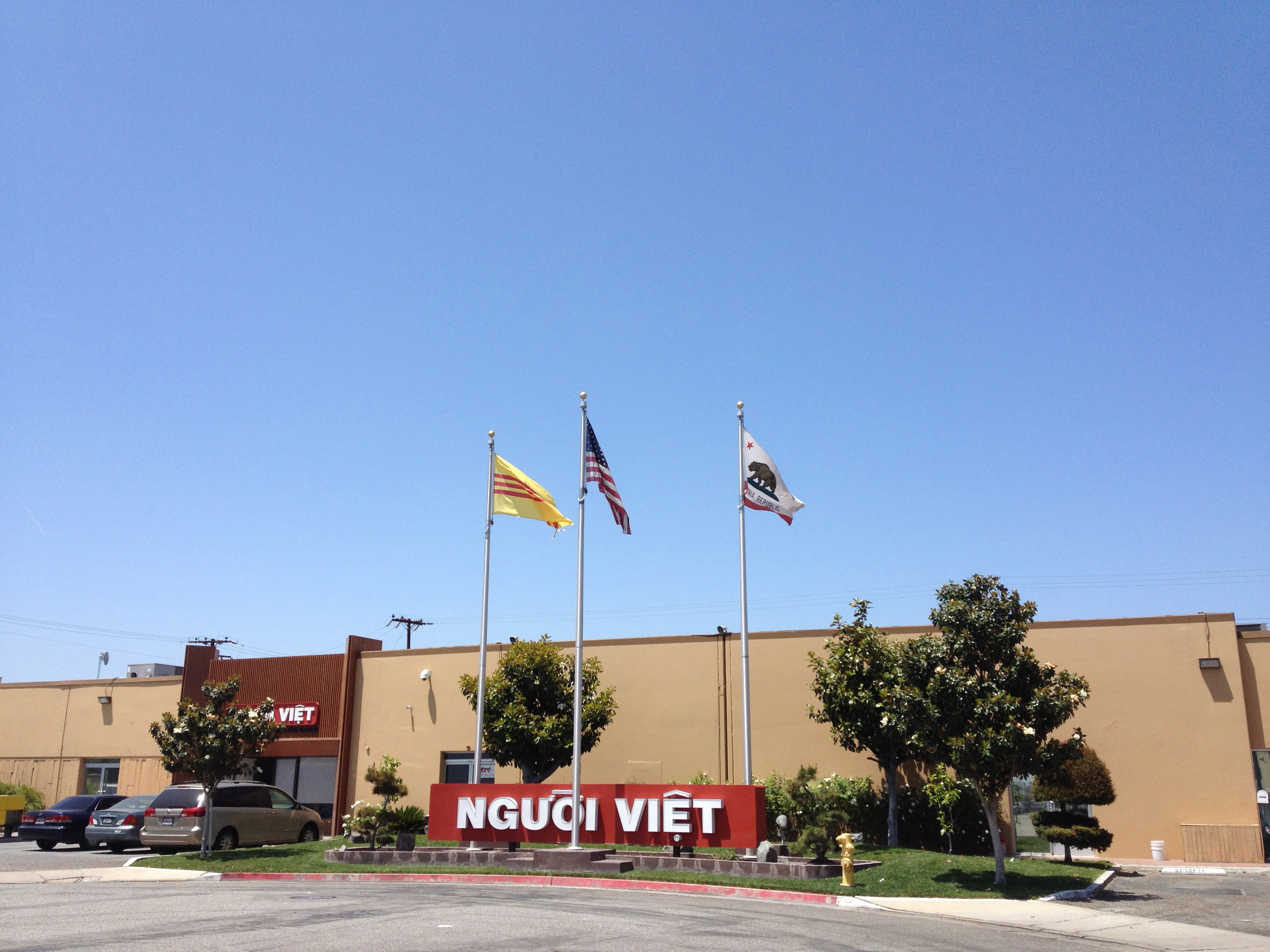 Office of Nguoi Viet News in Westminster, CA